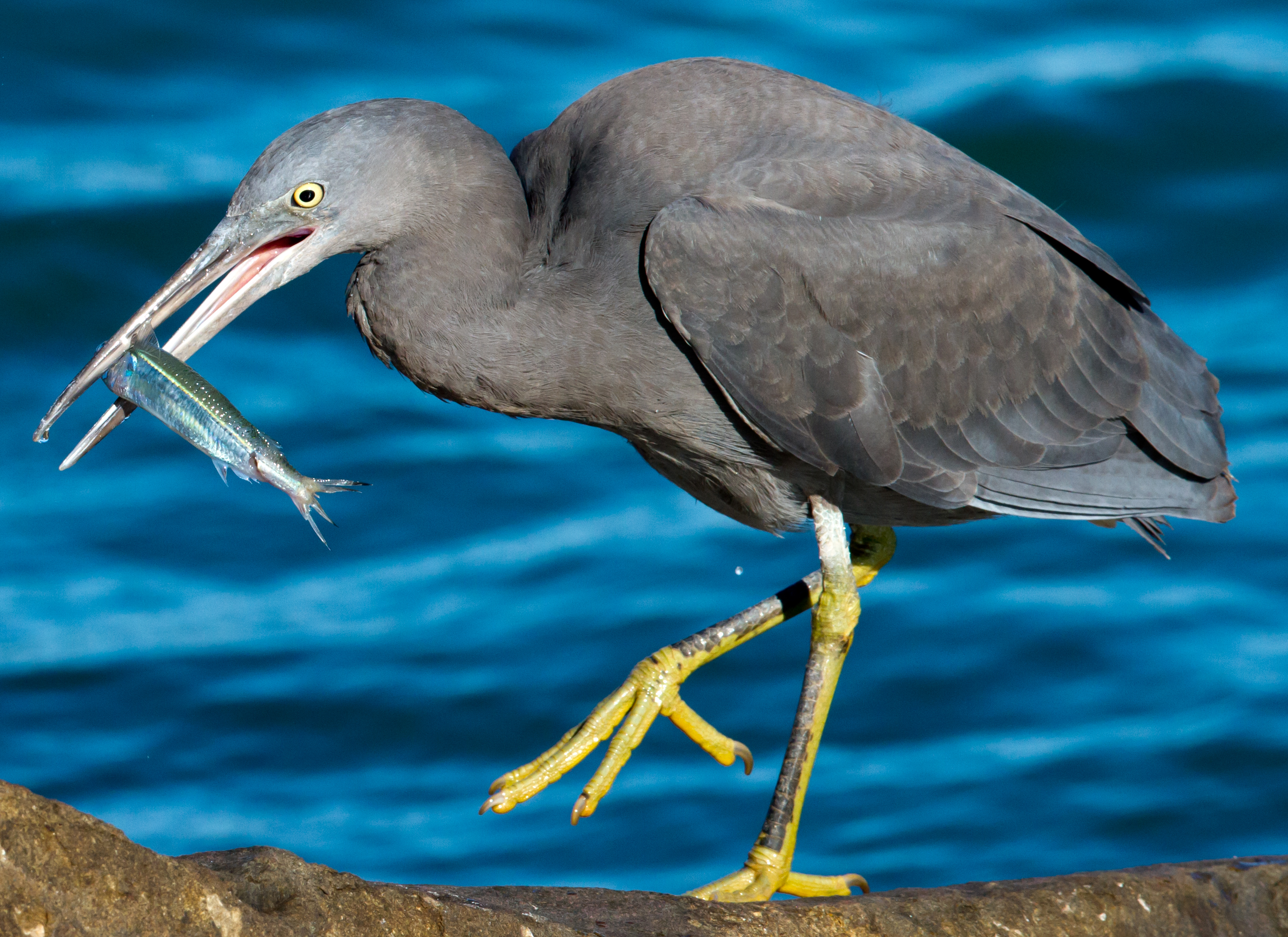 A Pacific Reef Heron in Karratha, Pilbara, Western Australia, Australia.